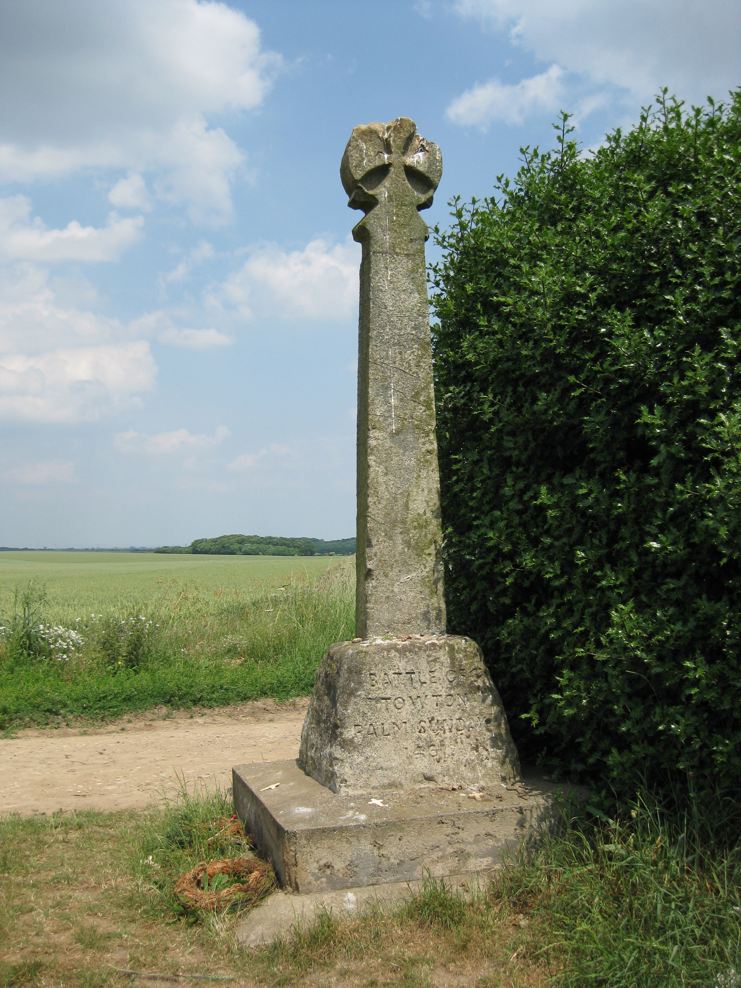 Dacre's Cross, near Towton, North Yorkshire. Commemorating the Battle of Towton, Palm Sunday 1461, and the death of Lord Dacre. Probably a parish boundary stone which has been inscribed.